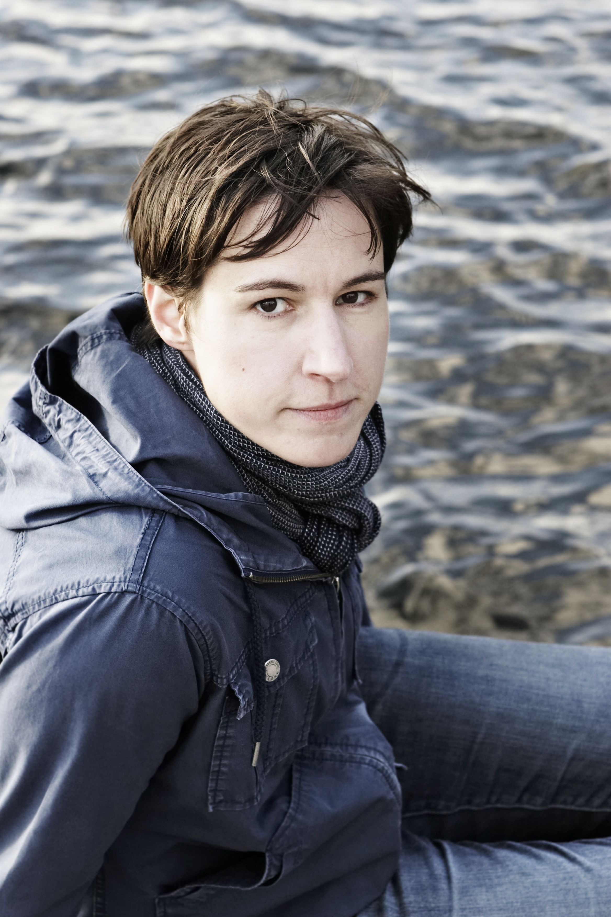 Eva Ribich, Swedish author